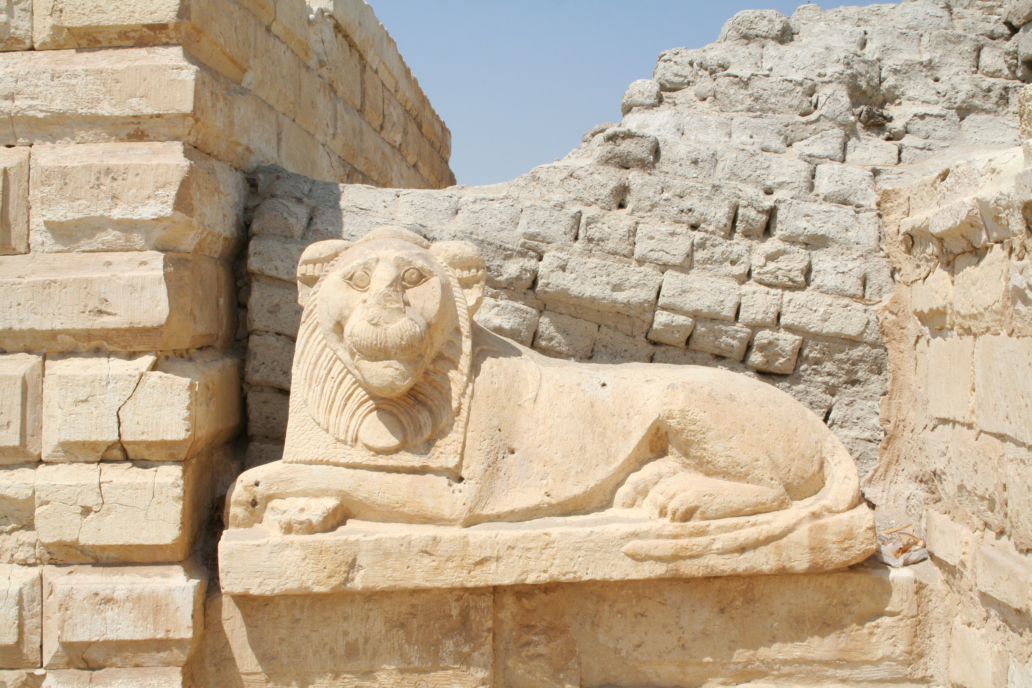 Lion in front of the temple of Medinet Madi/Narmuthis